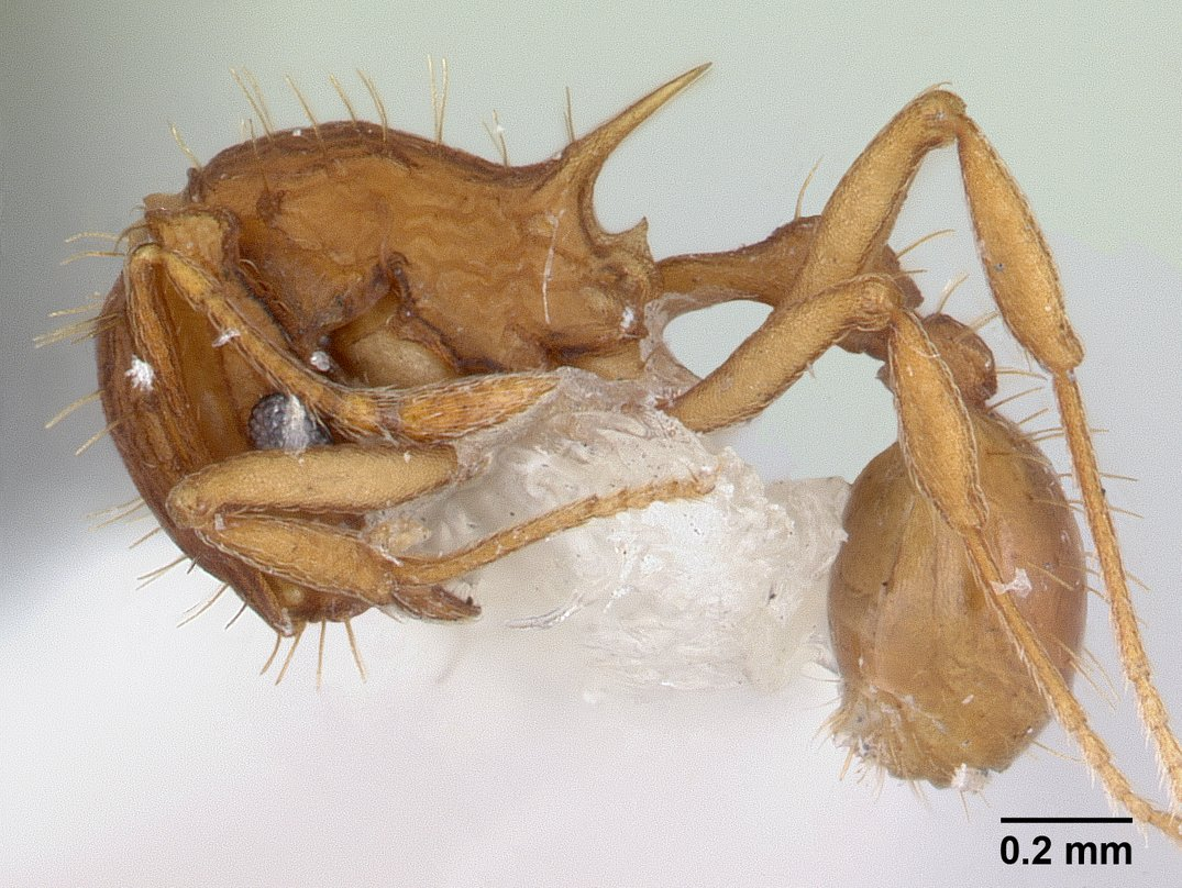 Profile view of ant Blepharidatta brasiliensis specimen casent0178580.